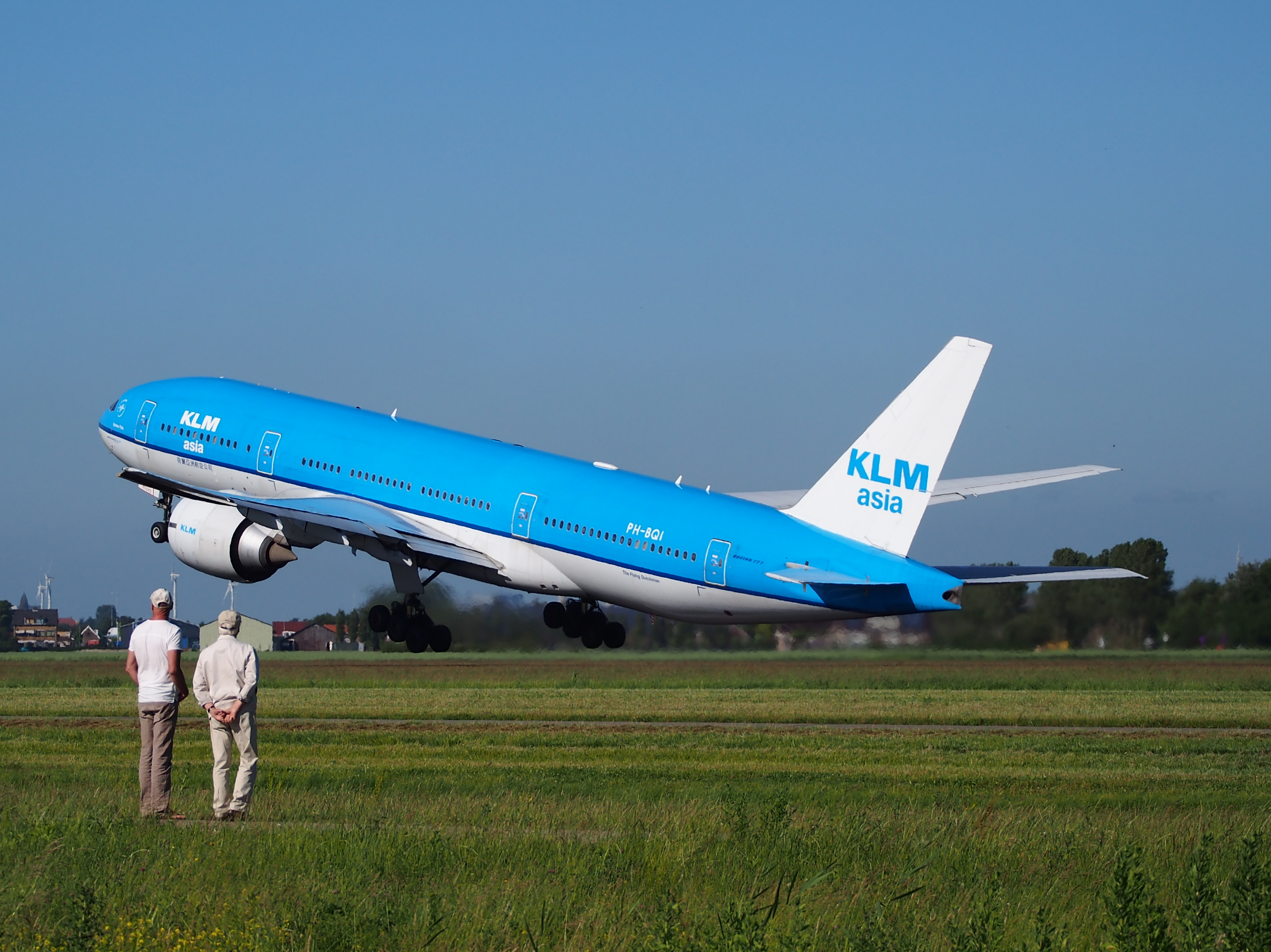 Photographed at Amsterdam Schiphol Airport (AMS - EHAM), The Netherlands.